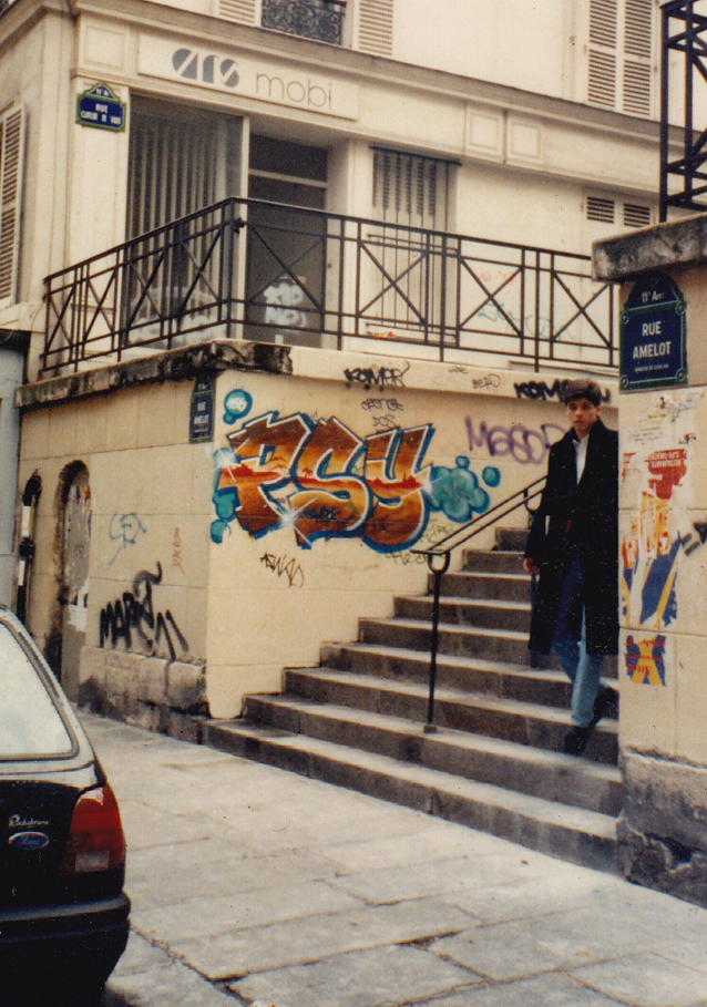 psy minute